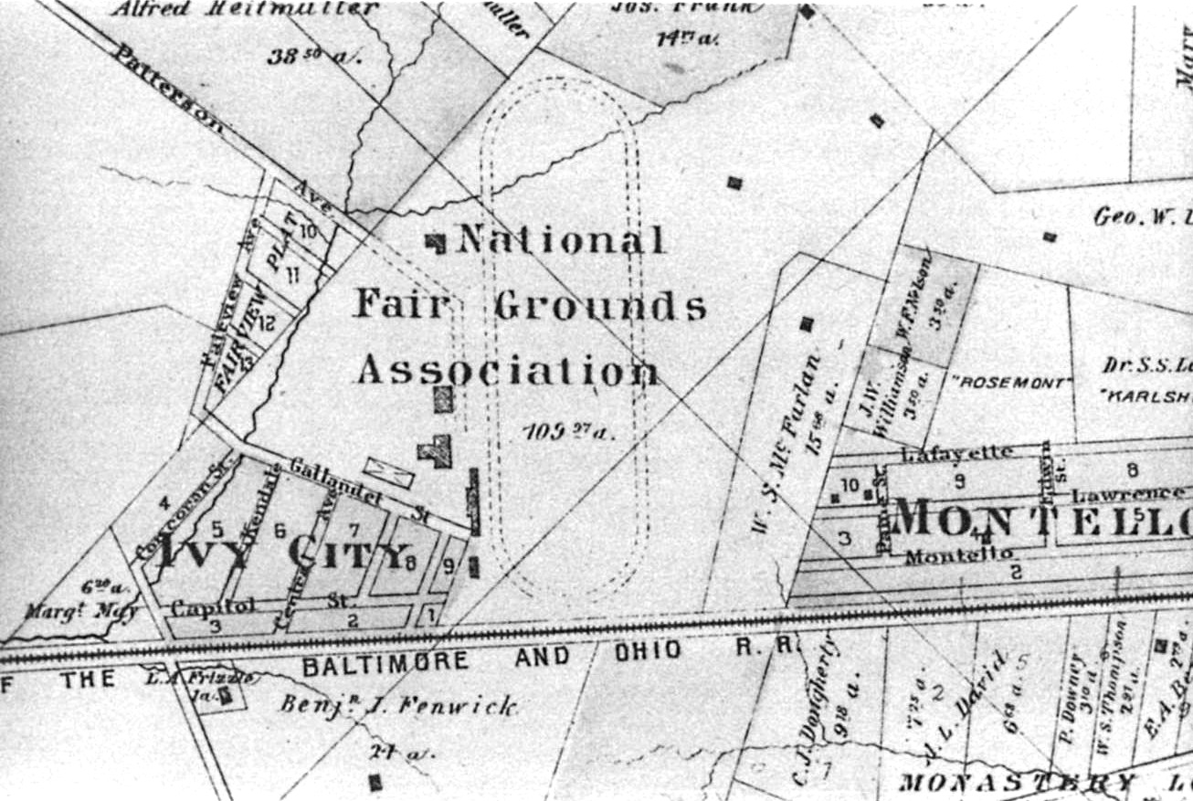 Depiction of Ivy City Subdivision, along with the National Fair Grounds horse racing track, in Washington, D.C., in 1887.